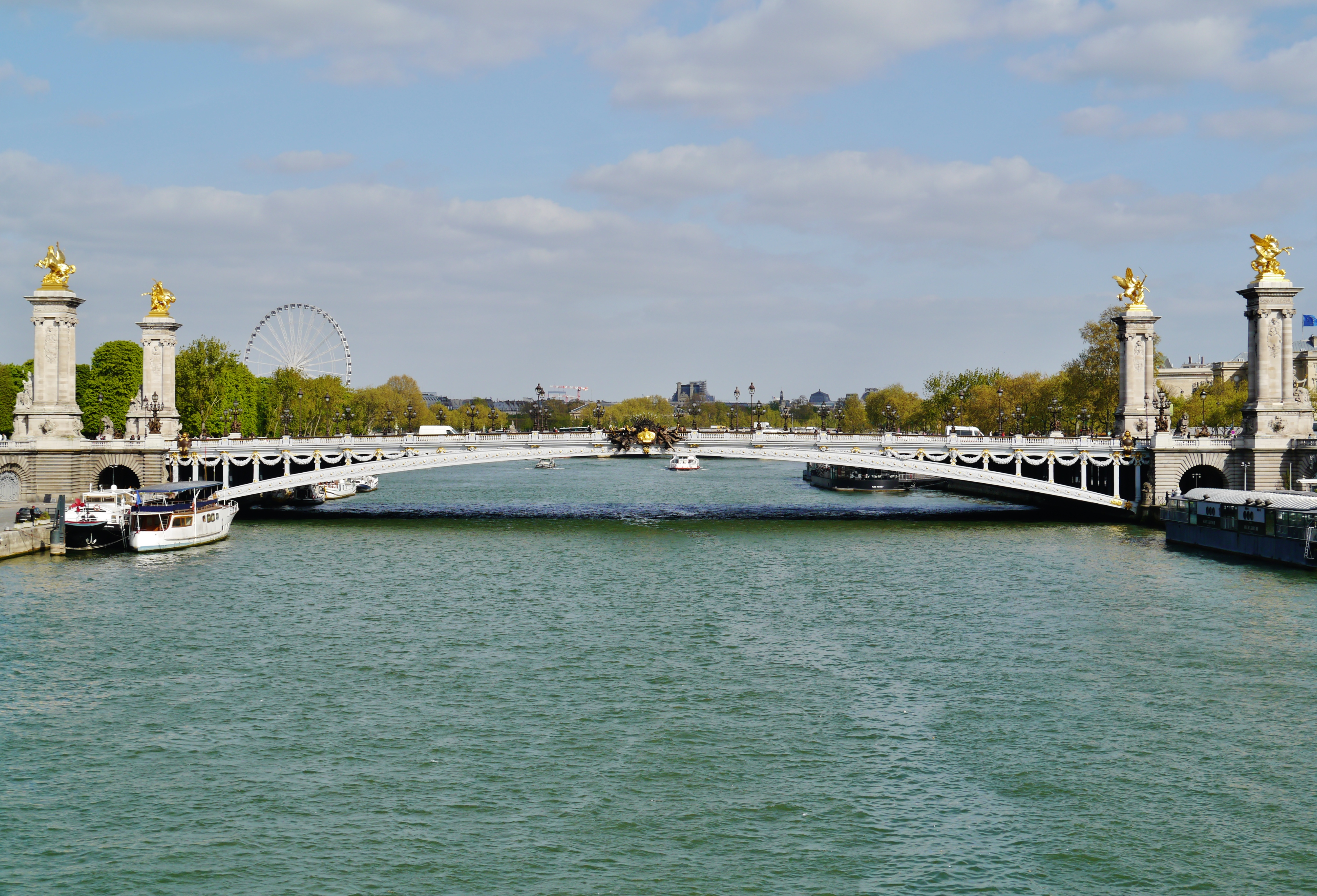 Alexander III Bridge, Paris, Region of Île-de-France, France